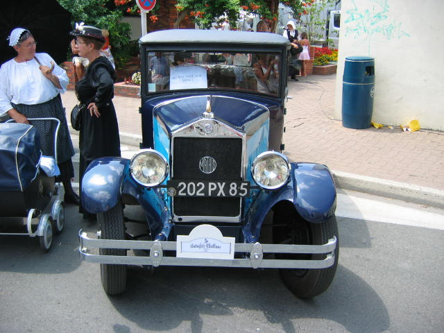 French MATHIS car, type MY, 1926 Picture : Gérard Delafond